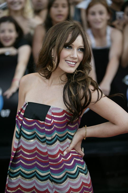 American singer Hilary Duff at the 2007 MuchMusic Video Awards red carpet.